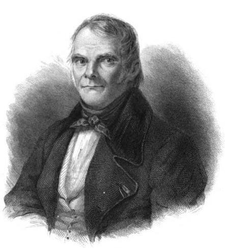 Touchard-Lafosse